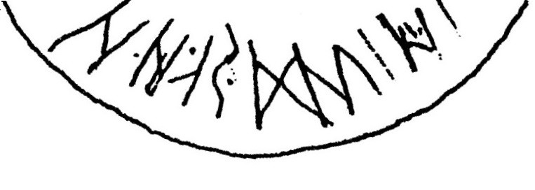 Peigen disc fibula, drawing of the runic inscription. The fibula is from the 6th century AD. It was found in Pilsting-Peigen, district of Dingolfing-Landau, Bavaria, Germany in 1986. - Article in German Wikipedia: Scheibenfibel von Peigen